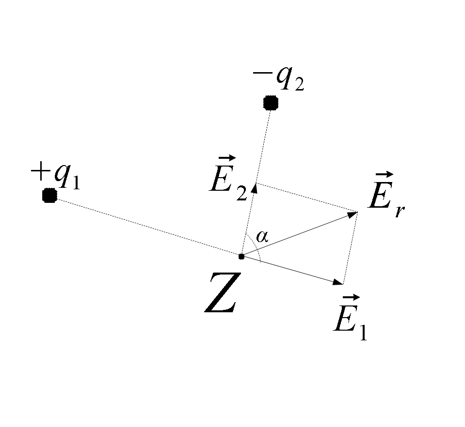 This image illustrates the Superposition of Charges (Electrostatics).Беларуская (тарашкевіца): Гэтая выява адлюстроўвае прынцып супэрпазыццыі зарадаў (электрастатыка).